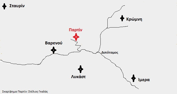 Sketch of village Partin